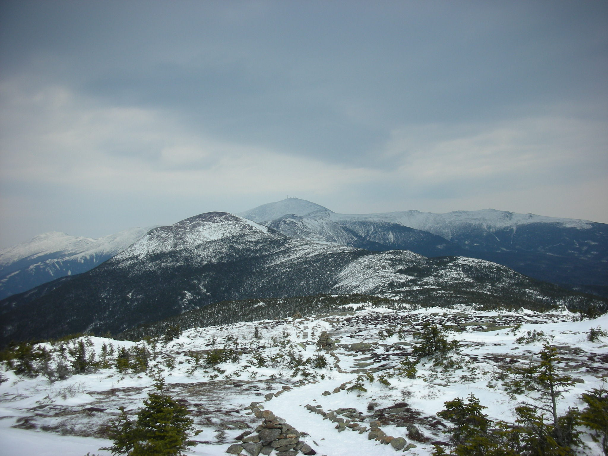 Views from Mt Pierce